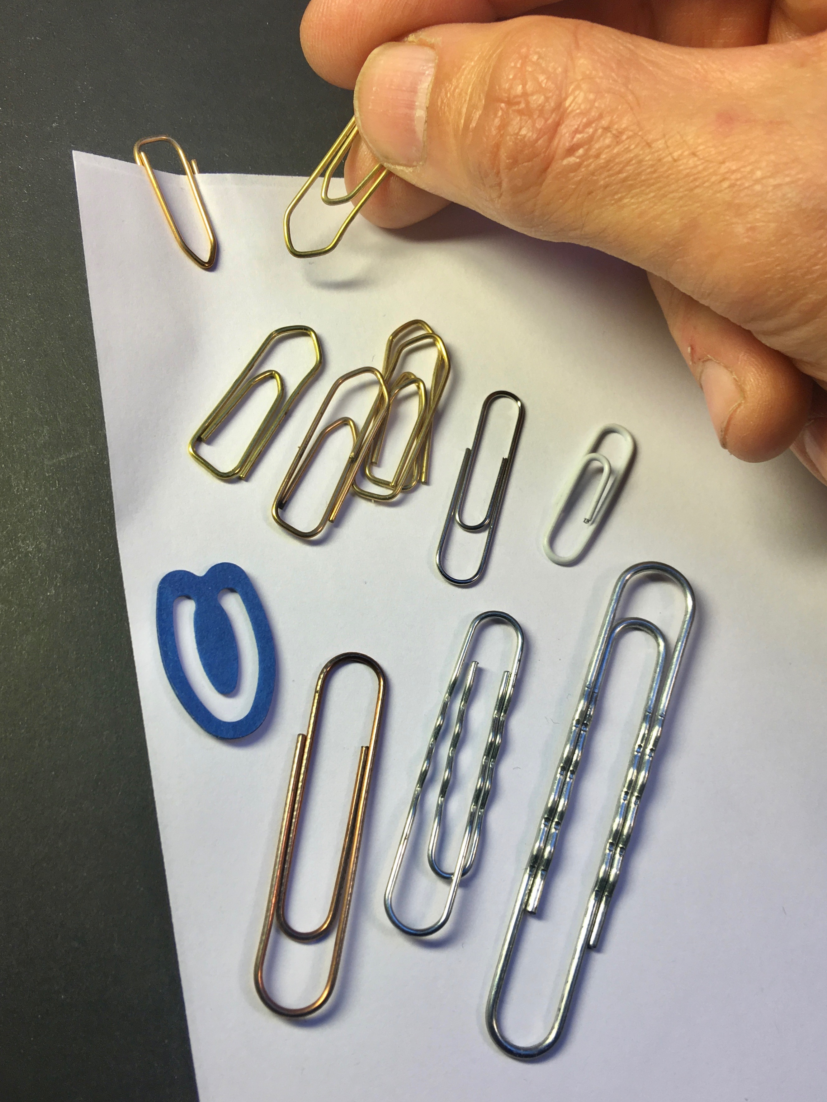 Metal paperclips in different sizes. Hand holdning paperclip, paperclip holding two white sheets of paper. Photo 2017-12-07